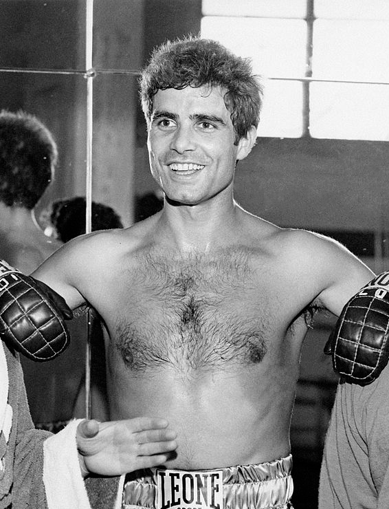 Italian actor Nino Castelnuovo, naked to the waist with boxing gloves and boxer shorts smiling beside Italian boxer Duilio Loi during the recording of the TV broadcast Ciao mamma. May 1968.